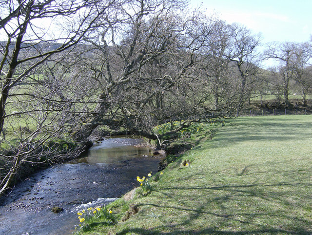 Farndale daffs on Easter Saturday 2007 Farndale's miniature daffodils are a draw for many hundreds of visitors.